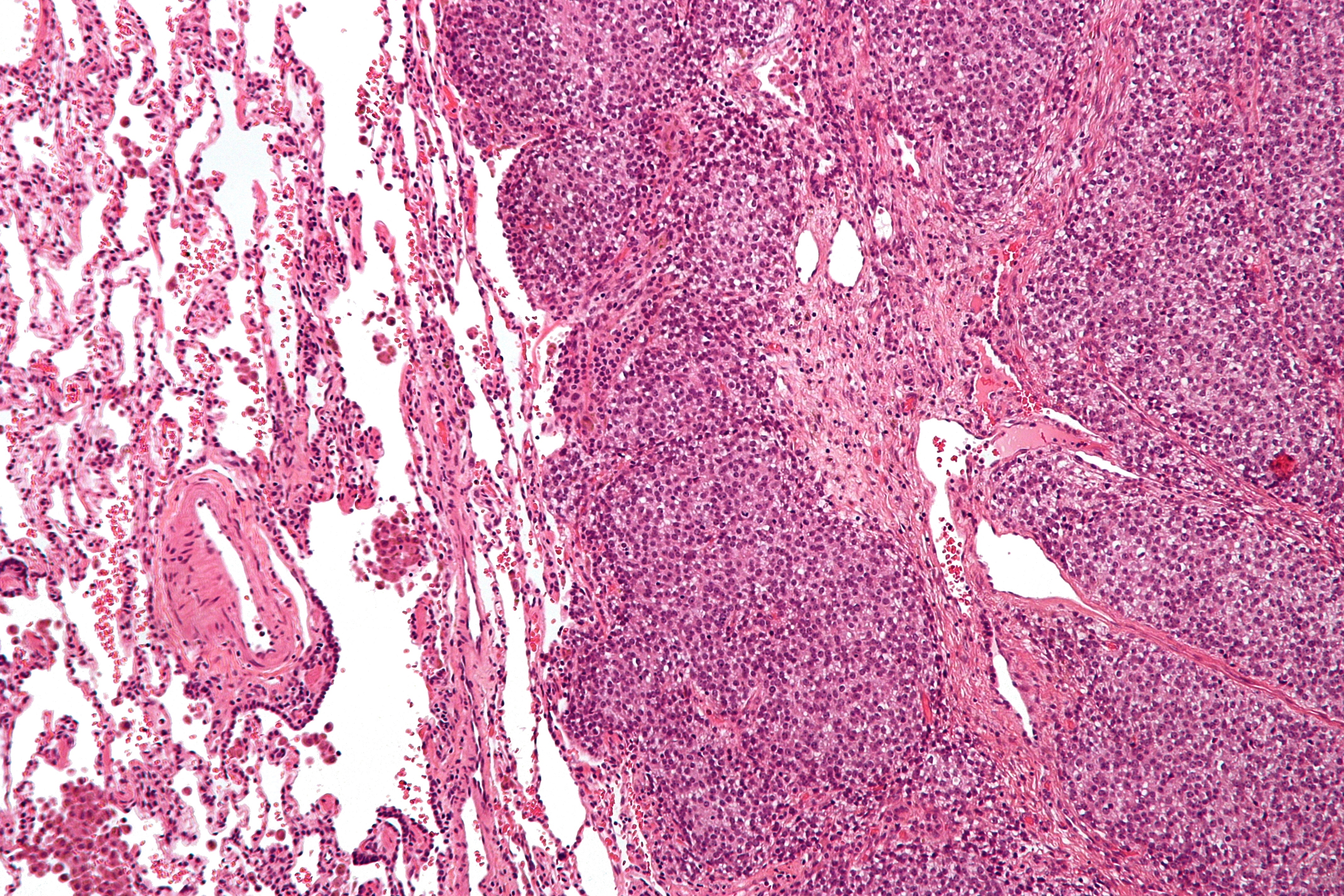 Intermediate magnification micrograph of Ewing sarcoma in lung. H&E stain The PAS stain highlights glycogen. The staining was negative with a PAS diastase stain. Related images Intermed. mag. High mag. Very high mag. Intermed. mag. High mag. Very high mag.